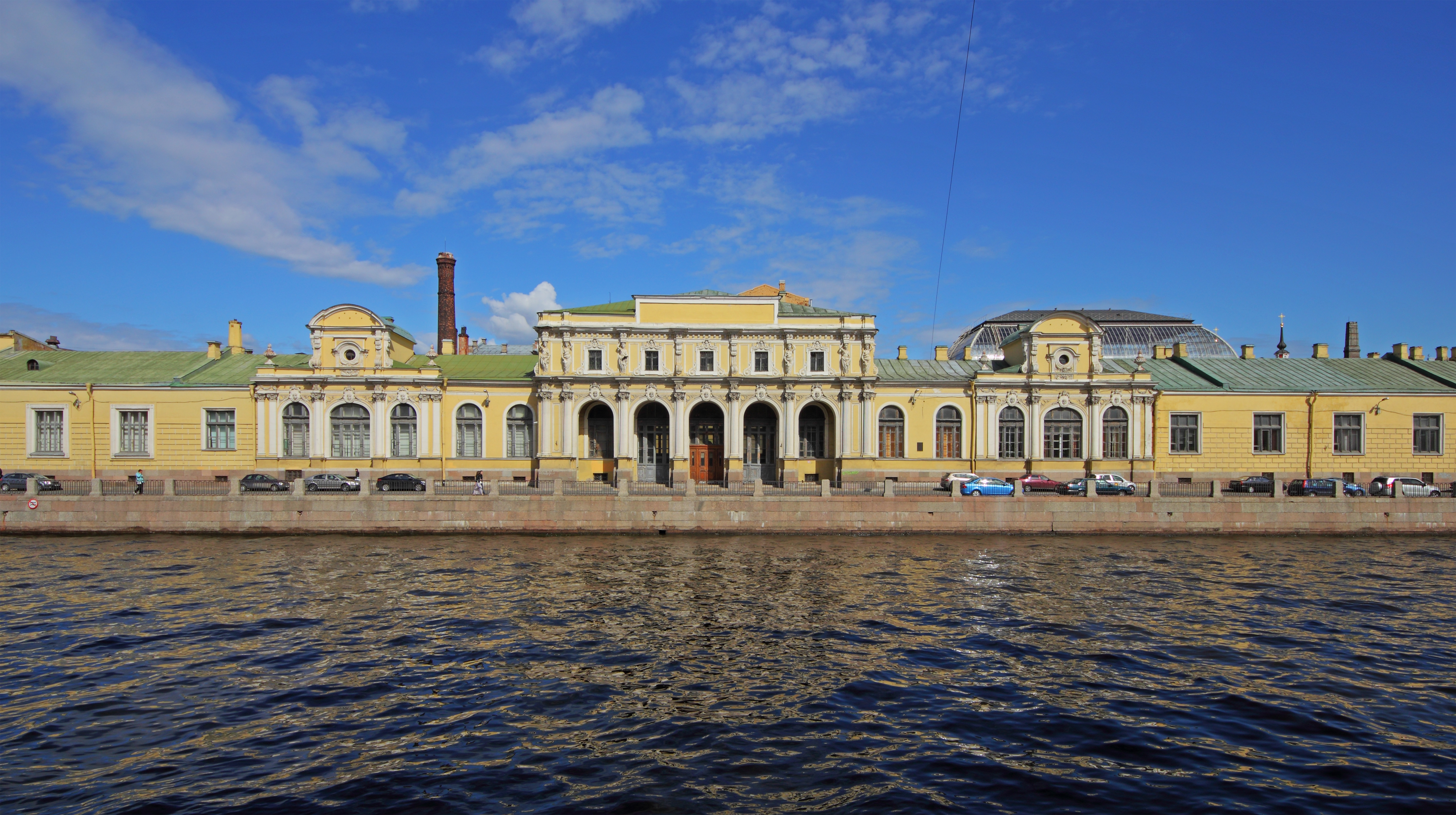 Saint Petersburg, Russia. View from the Summer Garden to a building at Fontanka Embankment.